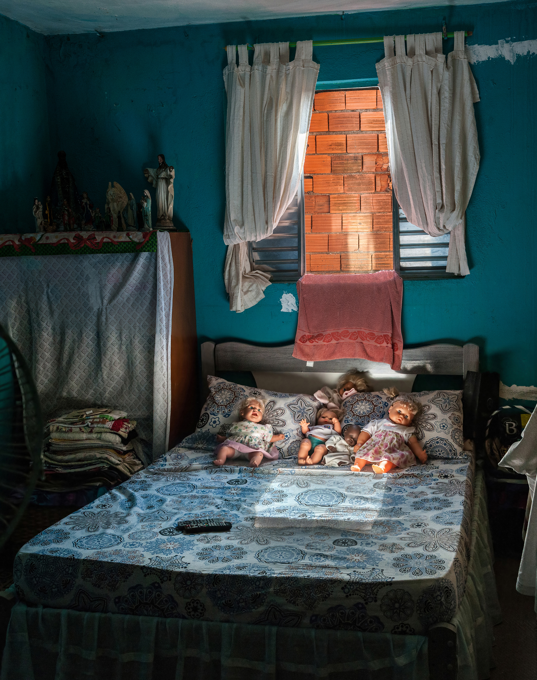 Typical favela room of a dwelling house around of São Paulo city at Santo André